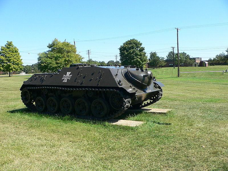 German armed forces Mortar companies fire control tank (Former Kanonenjagdpanzer 4-5 with removed gun barrel)